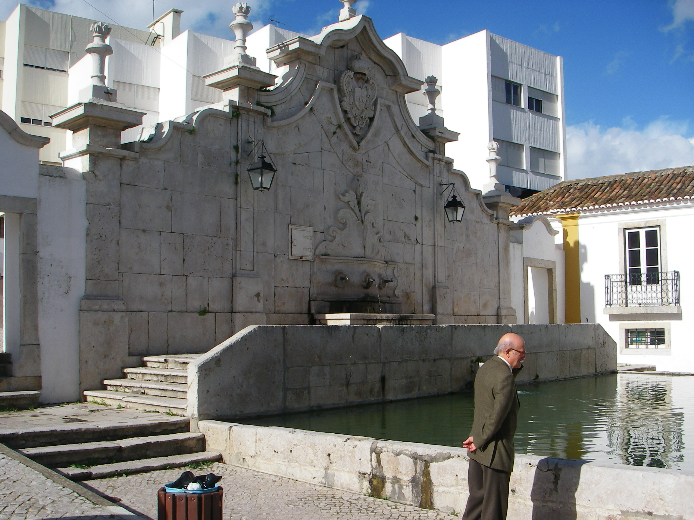 This file was uploaded for Wiki Loves Monuments in Portugal with the unique identifier 71268.